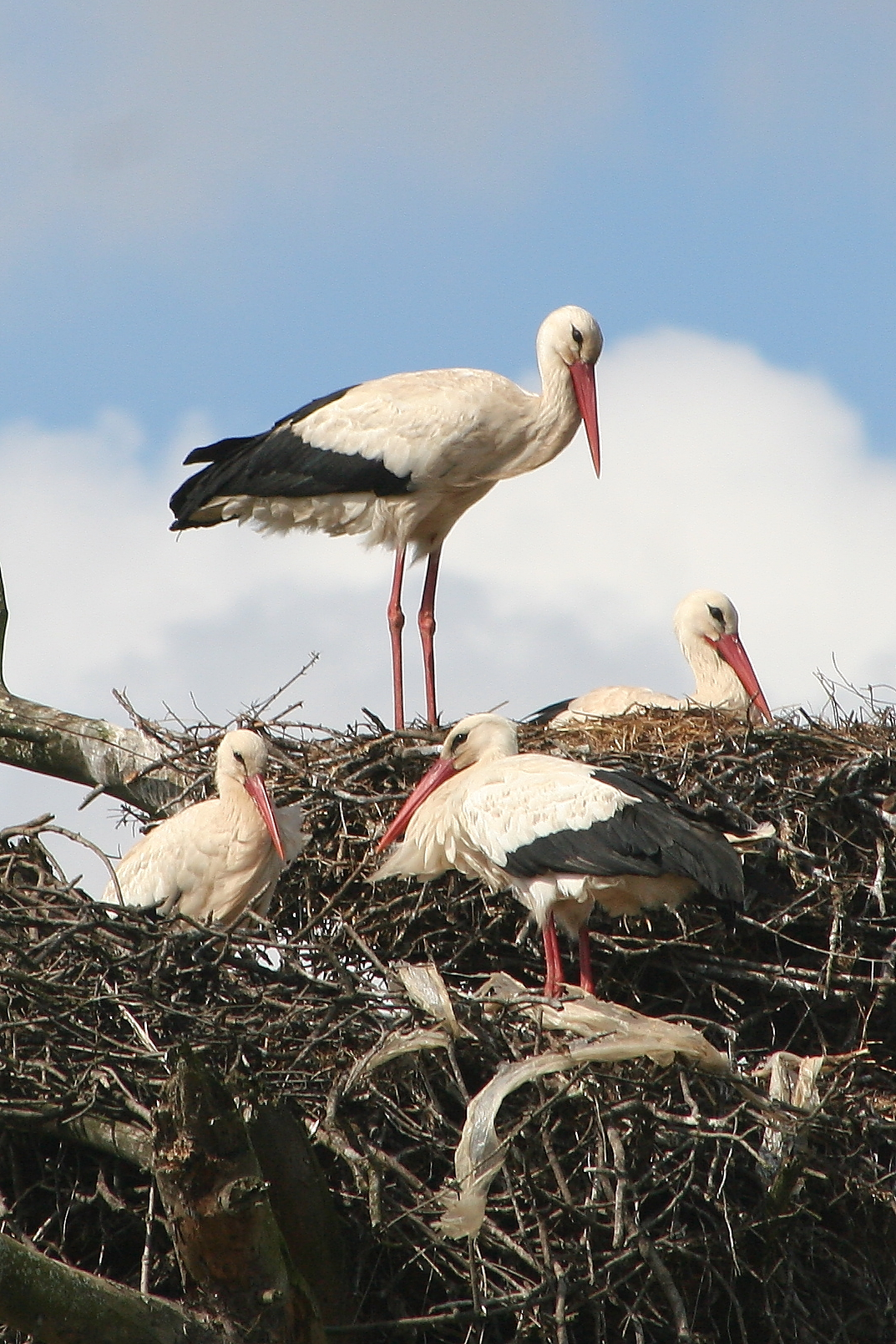 White stork